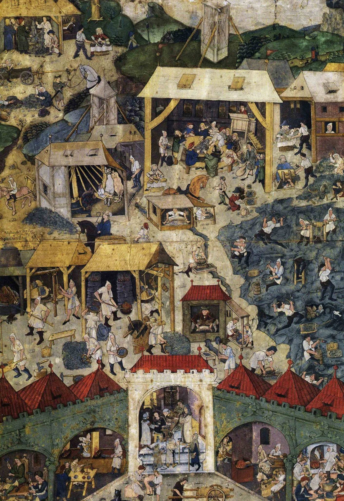 Silver mining in Kutná Hora. Size 645 mm x 886 mm.